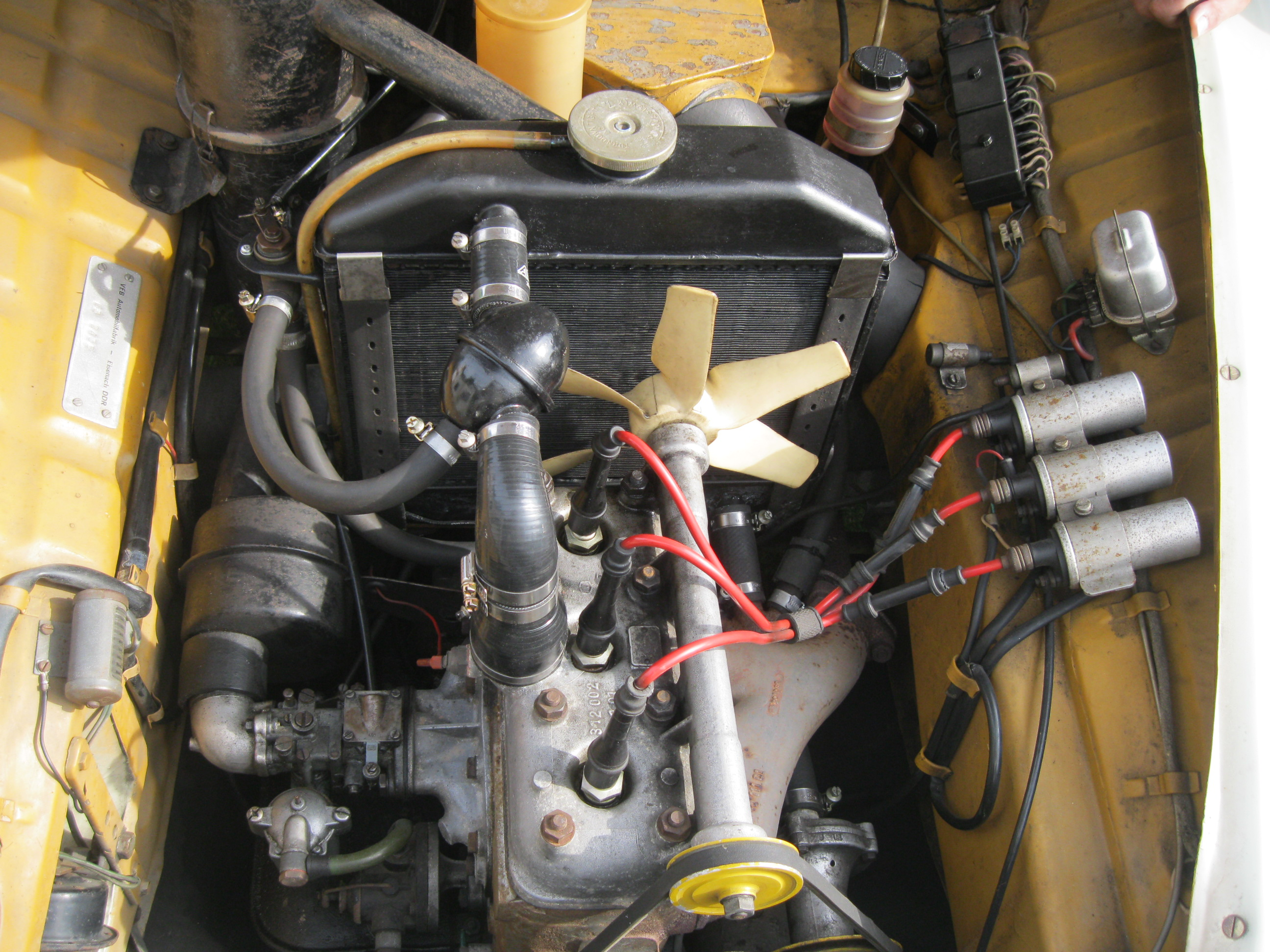 Beautiful example of this Two-stroke Saloon, circa 1963. From a private collection.